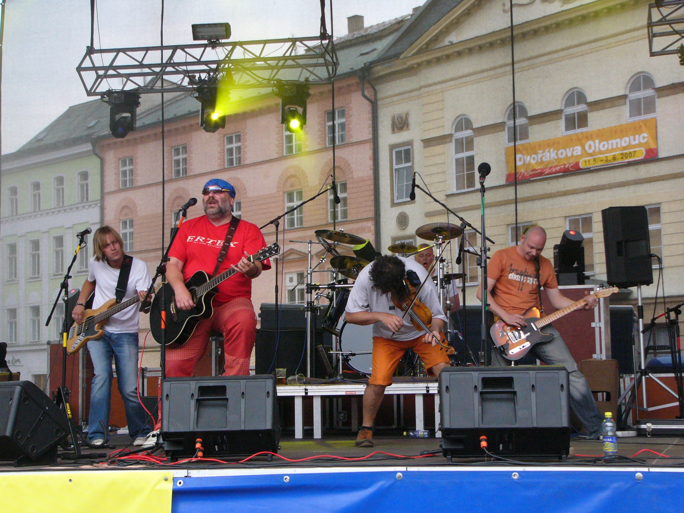 Czech music band Fleret in June 2007 in Olomouc (Czech Republic).